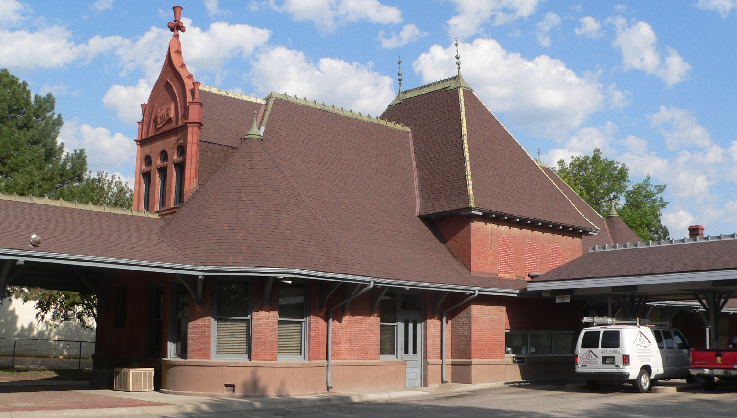 Chicago, Rock Island and Pacific depot, now a branch of Union Bank; located at 1940 O Street in Lincoln, Nebraska.